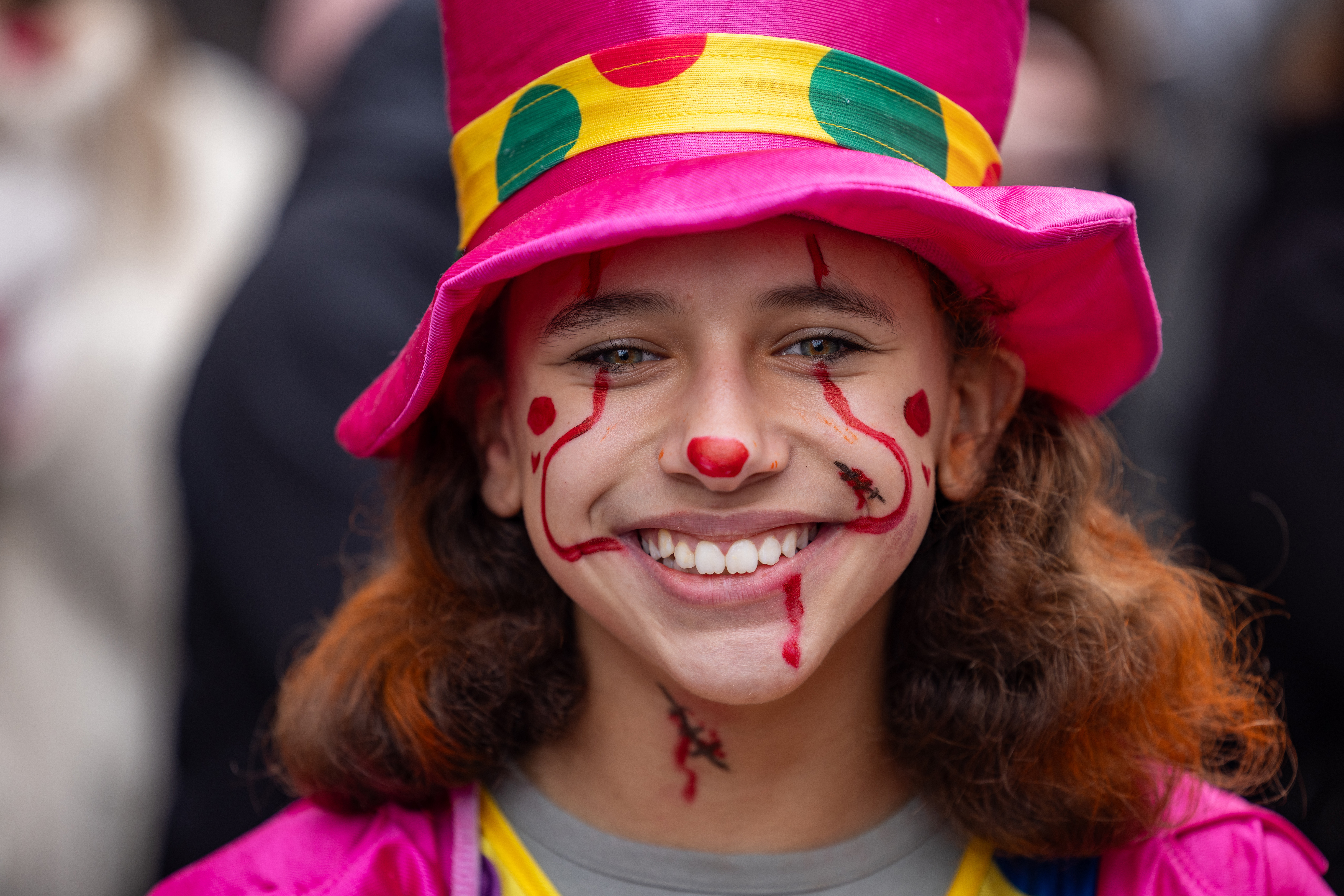 Etching, aquatint